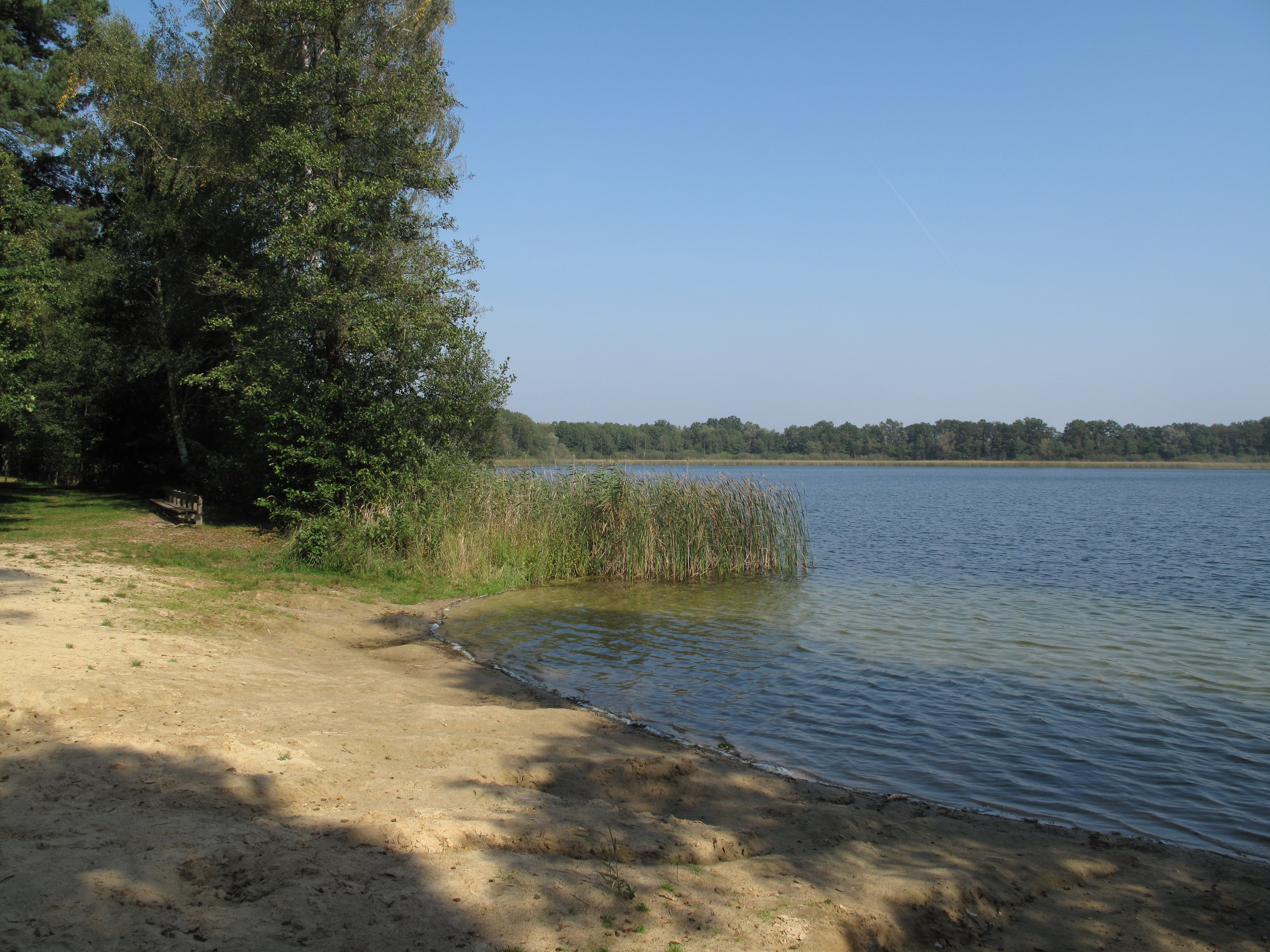 View over the Ranziger See from the western shore to the northeast. The Ranziger See is a lake in in the village Ranzig, a part (german: Ortsteil) of the municipality Tauche in the District Oder-Spree, Brandenburg, Germany. The lake covers 36 hectare and has a depth of max. twelve meters. The village centre of Ranzig is situated on the northwestern shore.